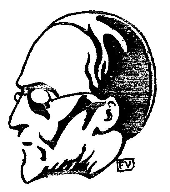 Portrait of French philosopher and historian Hippolyte Taine (1828-1893) by Félix Valloton (1865-1925)